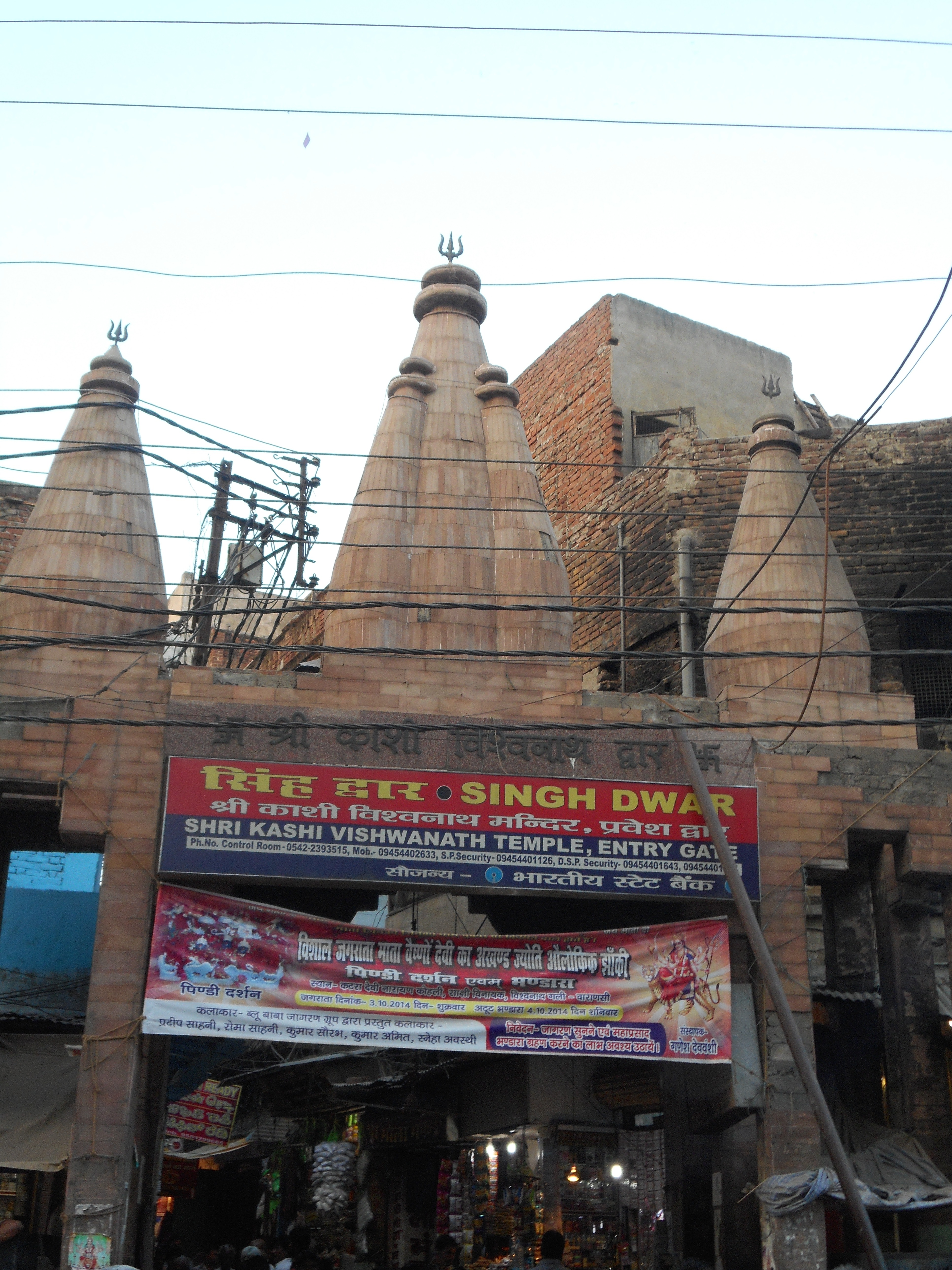 Jambuvaranasi11 காசி விசுவநாதர் கோயில் நுழைவாயில்